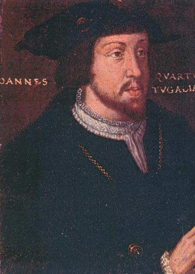 King Dom João II of Portugal